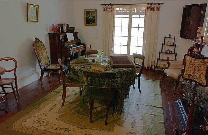 TRANBY HOUSE IS IN FREMANTLE, WESTERN AUSTRALIA. THE HOUSE IS FURNISHED IN THE STYLE OF THE FIRST HALF OF THE 19TH CENTURY; ALL FURNITURE IS AUTHENTIC, BUT HAS COME FROM VARIOUS SOURCES .THERE IS AN ARTICLE ON TRANBY HOUSE IN WIKIPEDIA.